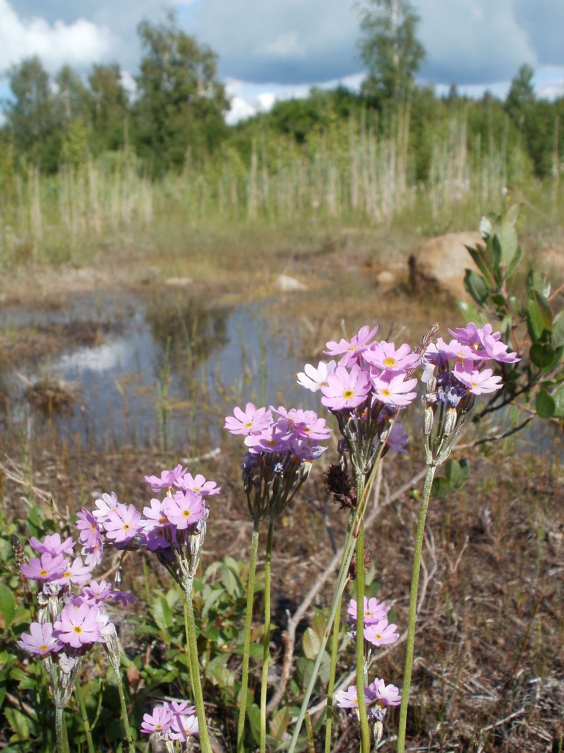 Rich fen in Östergötland, Sweden. Featuring Bird's eye primrose (Primula Farinosa).